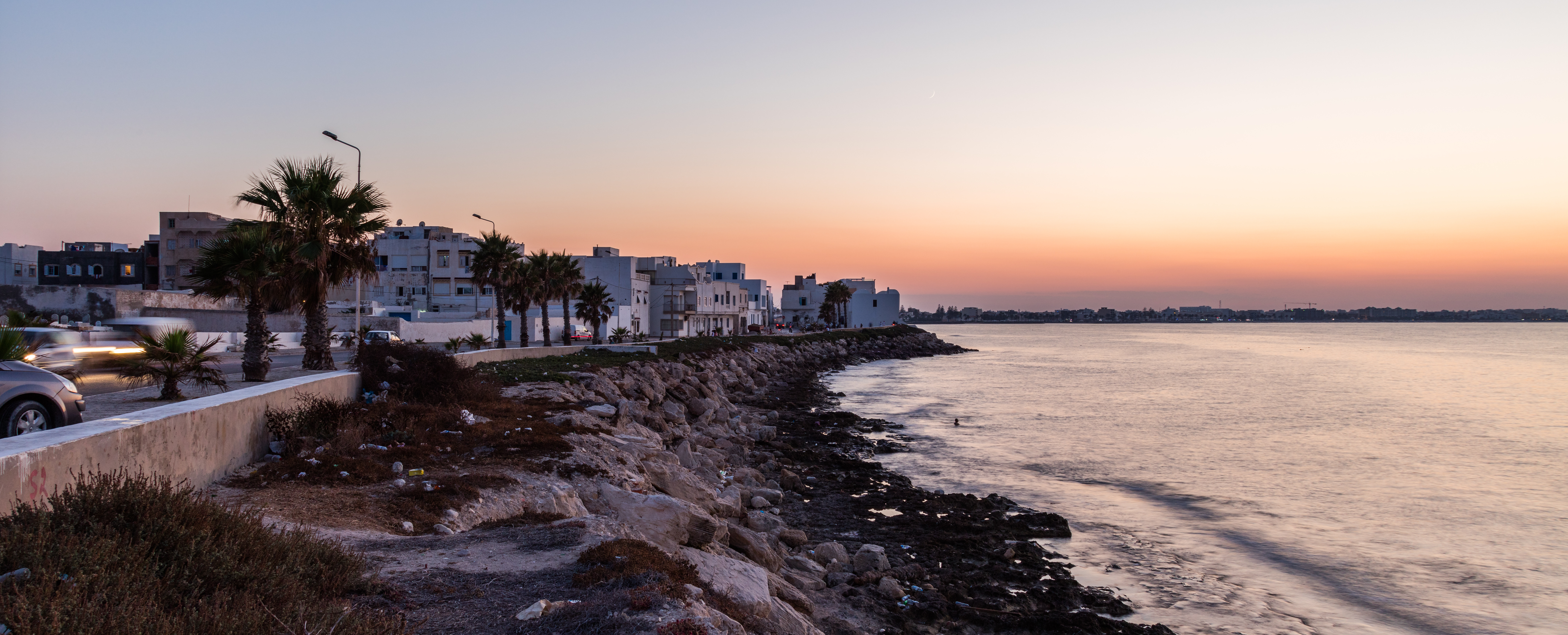 Coast of Mahdia, Tunisia